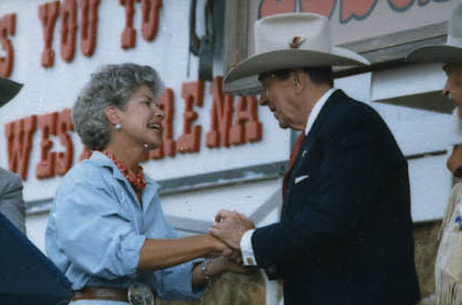 President Reagan, Kay Orr, David Karnes, Virginia Smith, Hal Daub, Clayton Yeutter, James Kirkman, (Not in all Photos) (2A-36) Trip to Nebraska, Remarks at Buffalo Bill Wild West Arena